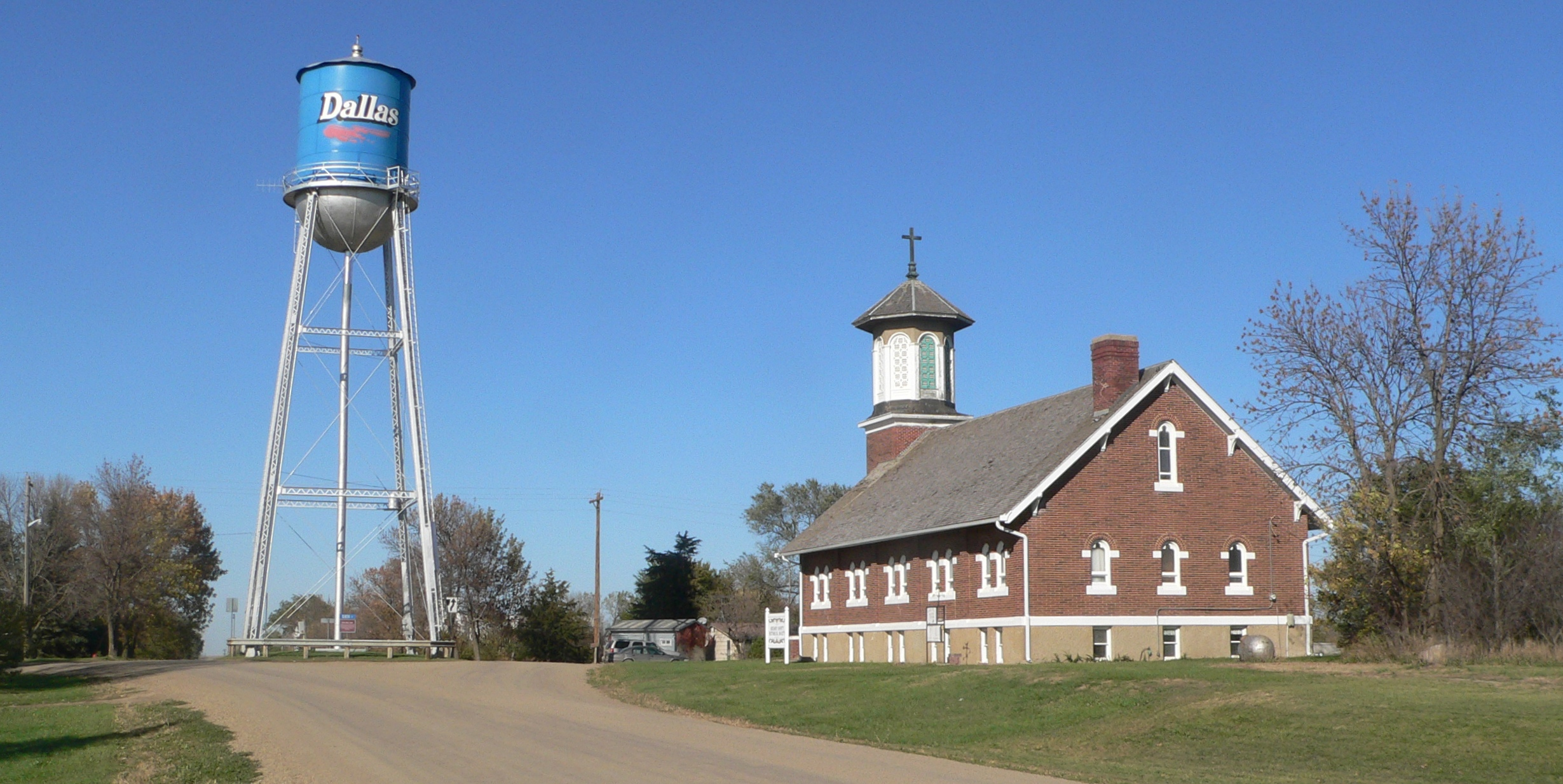 Downtown Dallas, South Dakota: camera is looking north along Main Street. The water tower is at the junction of 6th Street and Main; to the right (east) is St. Augustine Church, now occupied by the Gregory County Historical Society.